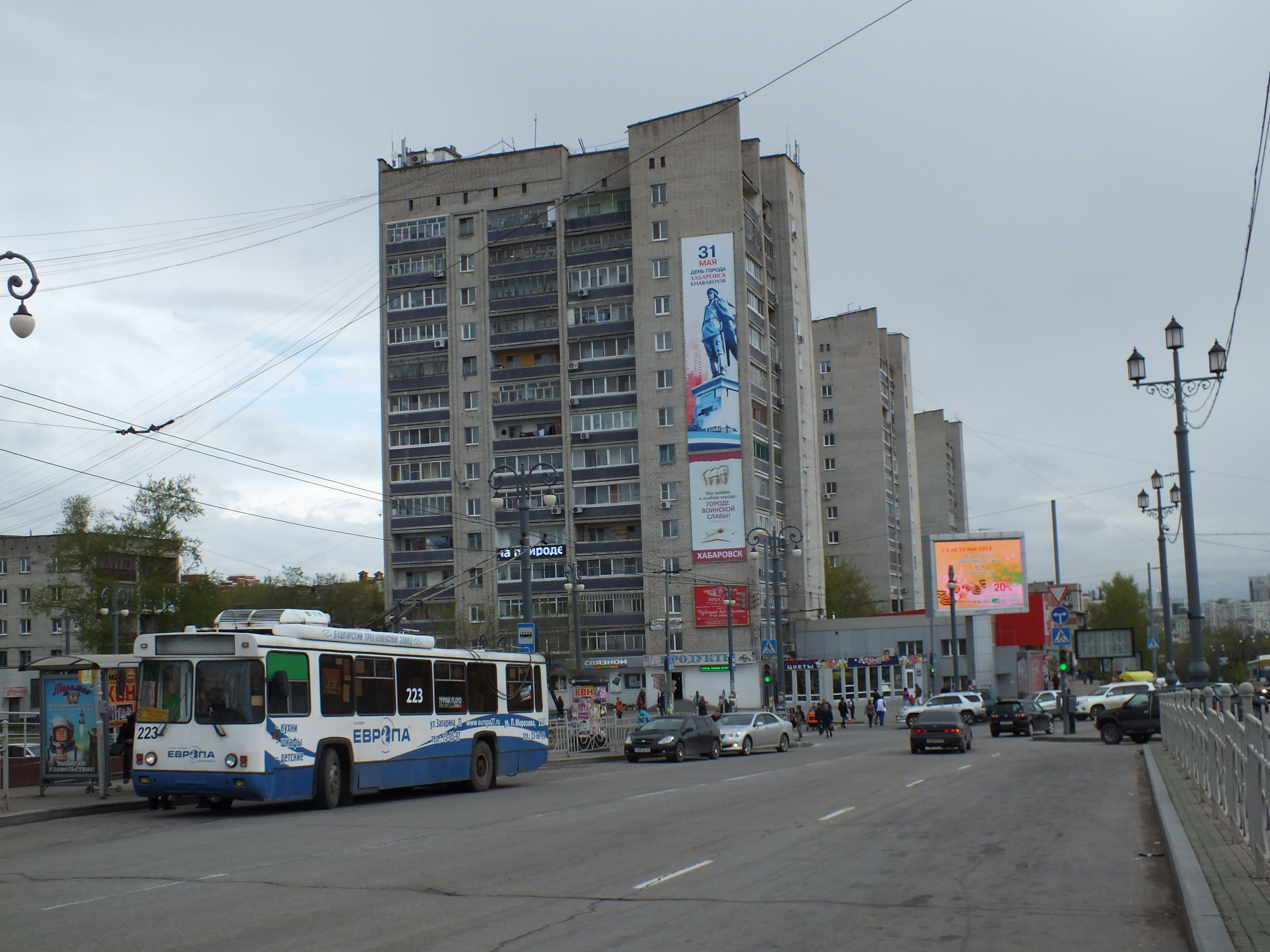 Trolleybuses in Khabarovsk